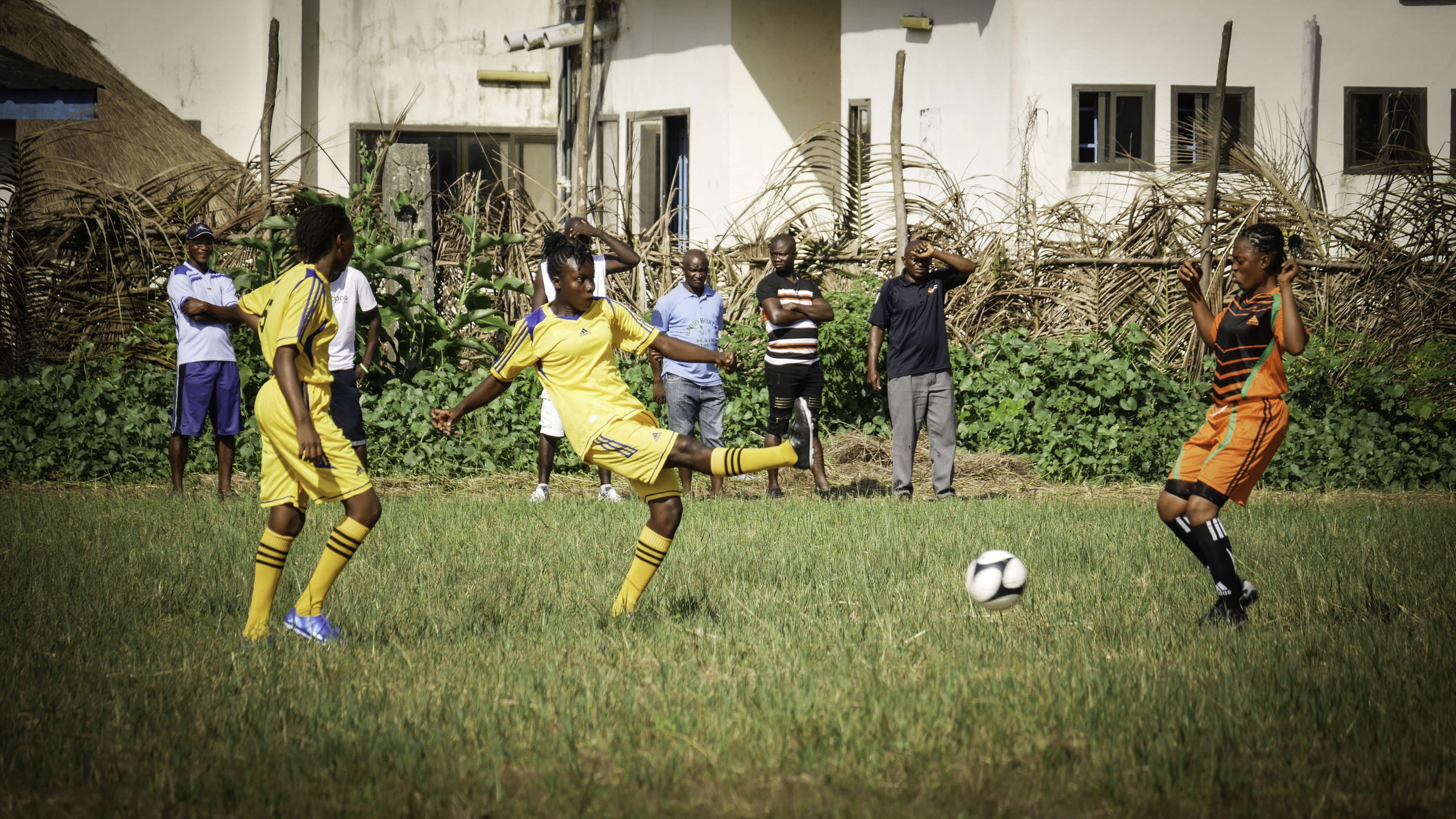 A young women strikes the ball at a football match promoting gender equality. This is an image of "African people at work" from Sierra Leone